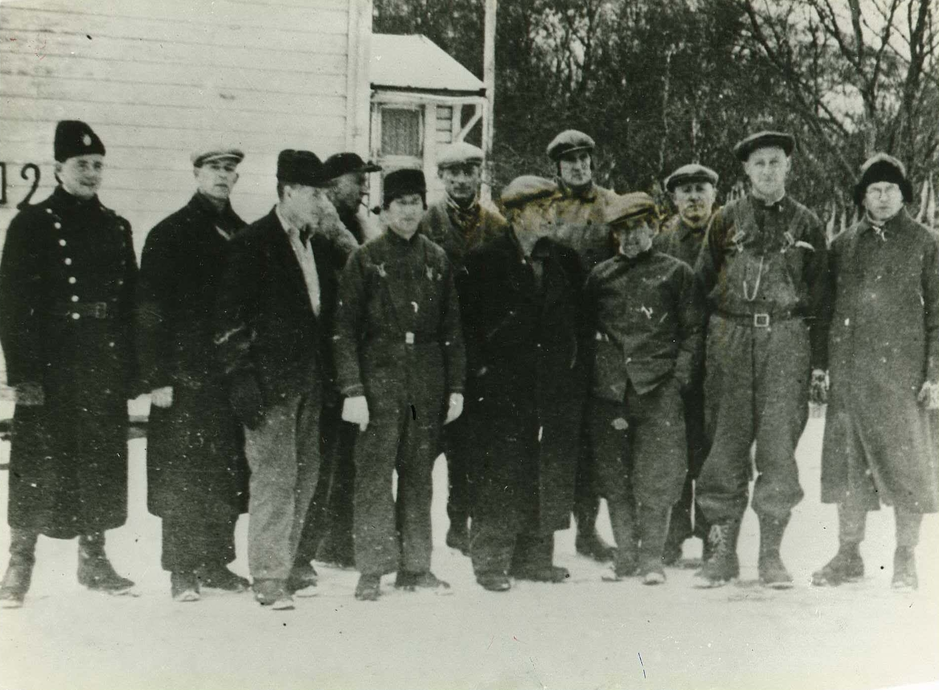 Beskrivelse: Skolekonflikten toppet seg våren 1942, da en lov om obligatorisk innmelding for alle lærere i det NS-initierte lærersambandet ble annonsert. Dette skulle være et mellomledd mellom offentlige myndigheter og lærerne og hensikten var åpenbart politisk. Lærerne skulle ”oppdras” til å formidle den nye tids ideer til elevene og på den måten være et redskap for nyordningen. De aller fleste lærere nektet medlemskap i lærersambandet. Ca 1100 lærere ble arrestert og mange av dem ble sendt til Kirkenes, hvor de satt internert under harde forhold. Arrested teachers in Kirkenes Description: The school conflict peaked in the spring of 1942, when a law of compulsory enrolment for all teachers to the NS initiated teachers association was announced. This was to be a link between the government and teachers, and the purpose was clearly political. The teachers were to be ”educated” to impart the ideas of the new era to the pupils, and thus be a tool for the new establishment. Most teachers refused membership in the association. Approx. 1100 teachers were arrested and many of them were sent to Kirkenes, where they were interned under hard conditions. URL